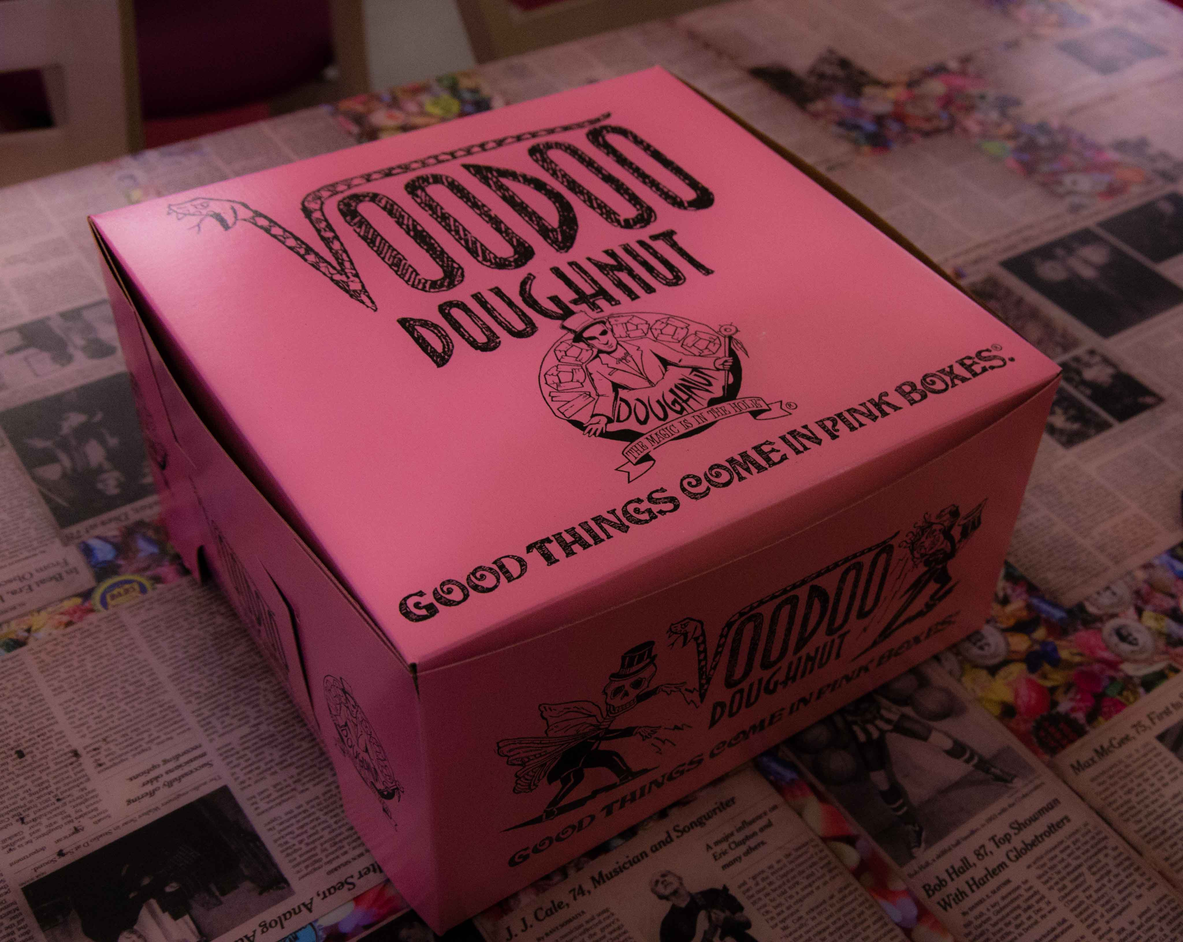 Iconic Voodoo Doughnut Pink Box